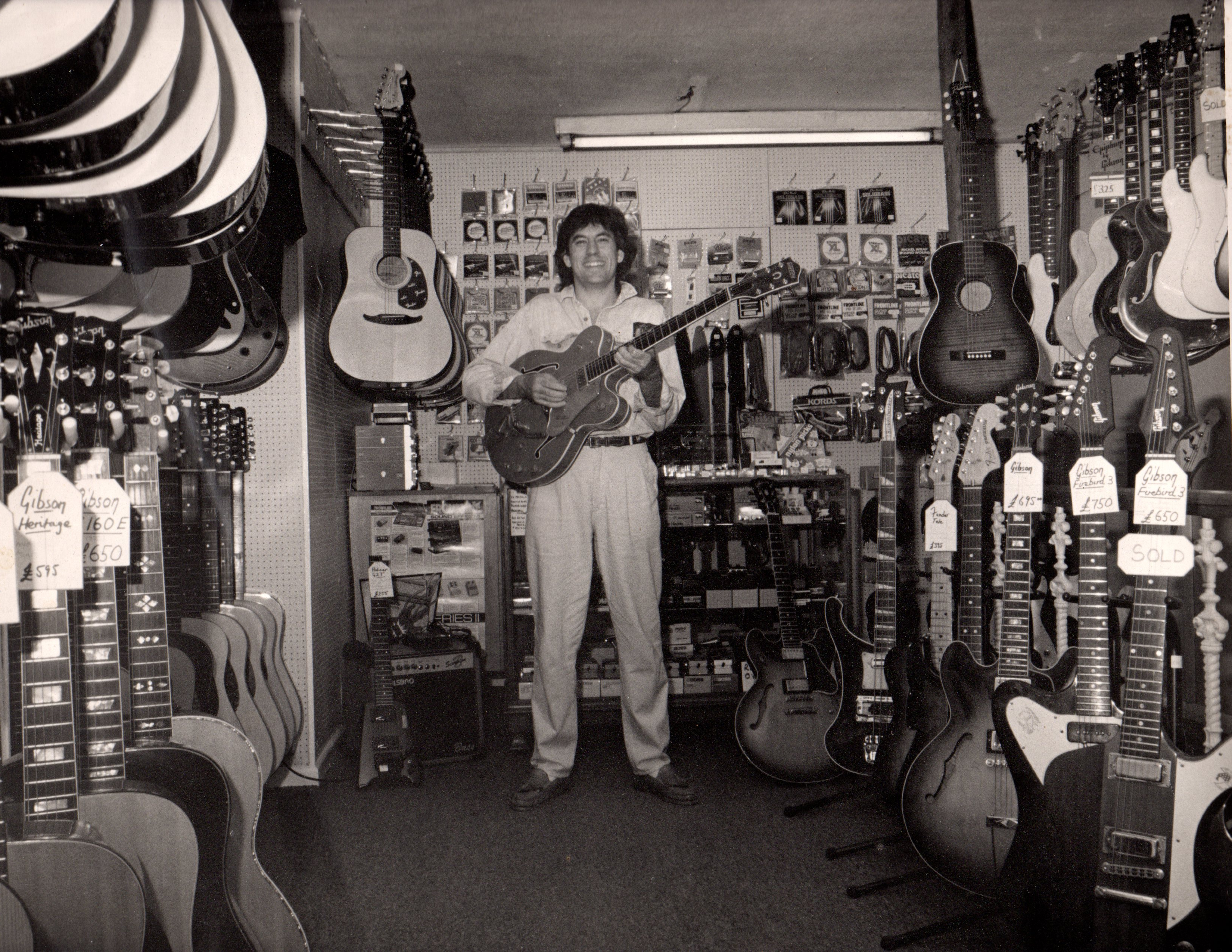 Derek Eyre-Walker in the original shop 37a West Street